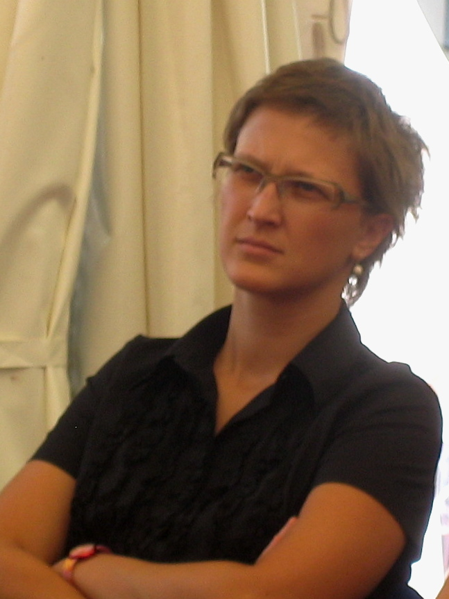 Jasmila Žbanić, film director from Bosnia and Herzegovina